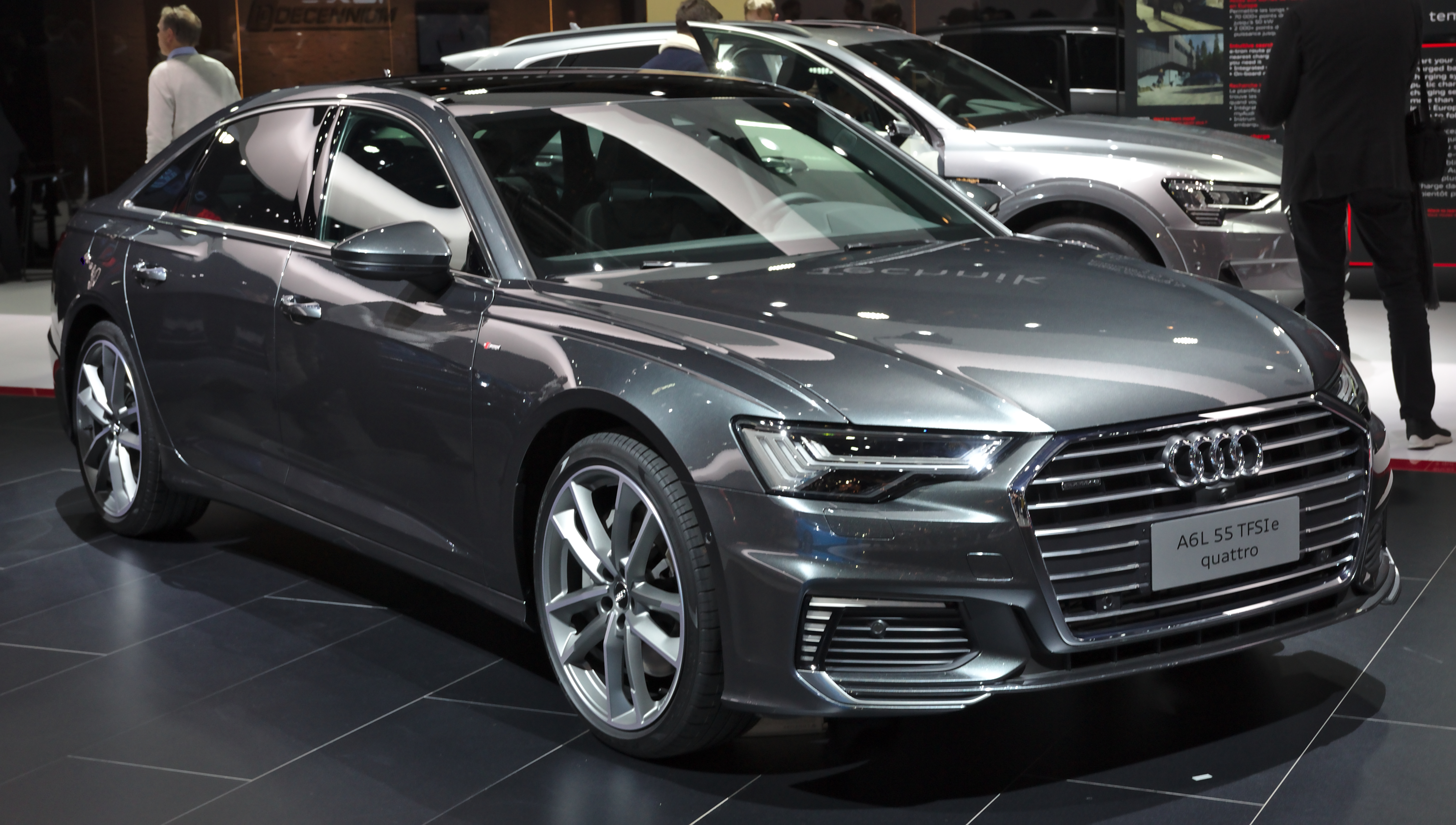 Audi A6L 55 TFSIe at Geneva Motor Show 2019